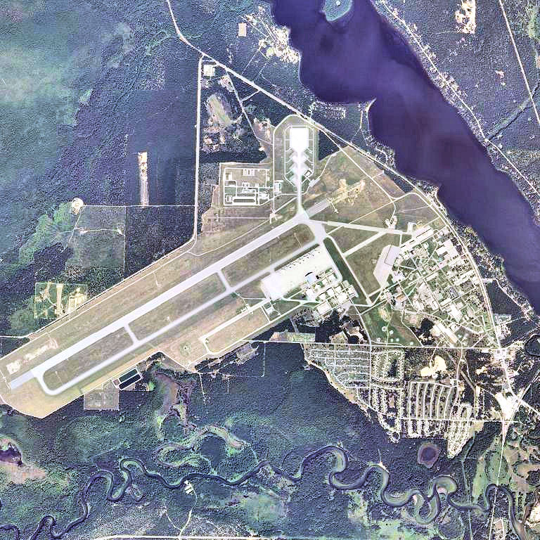 USGS digital orthophoto of Oscoda-Wurtsmith Airport in Michigan